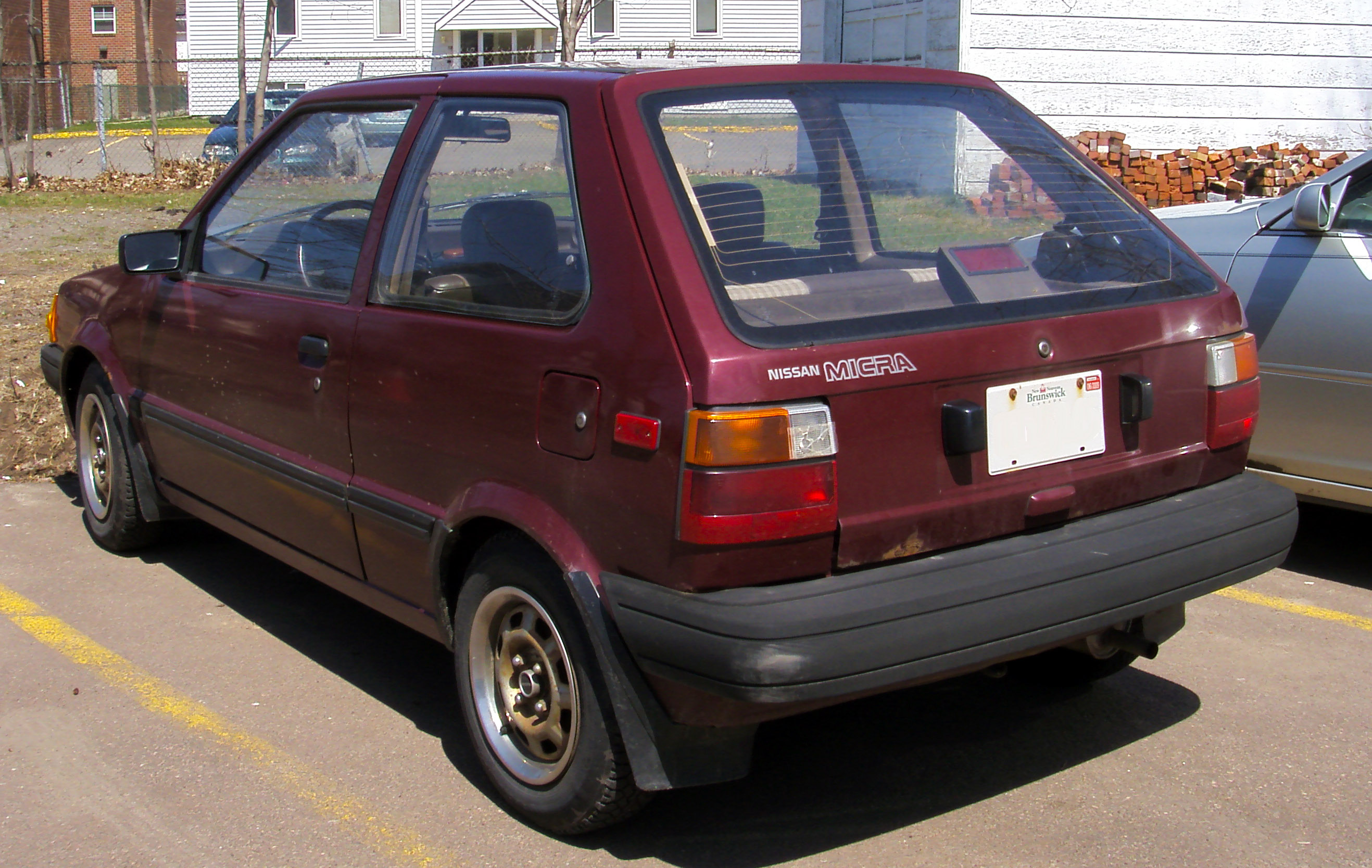 Nissan Micra K10 photographed in Moncton, New Brunswick, Canada.